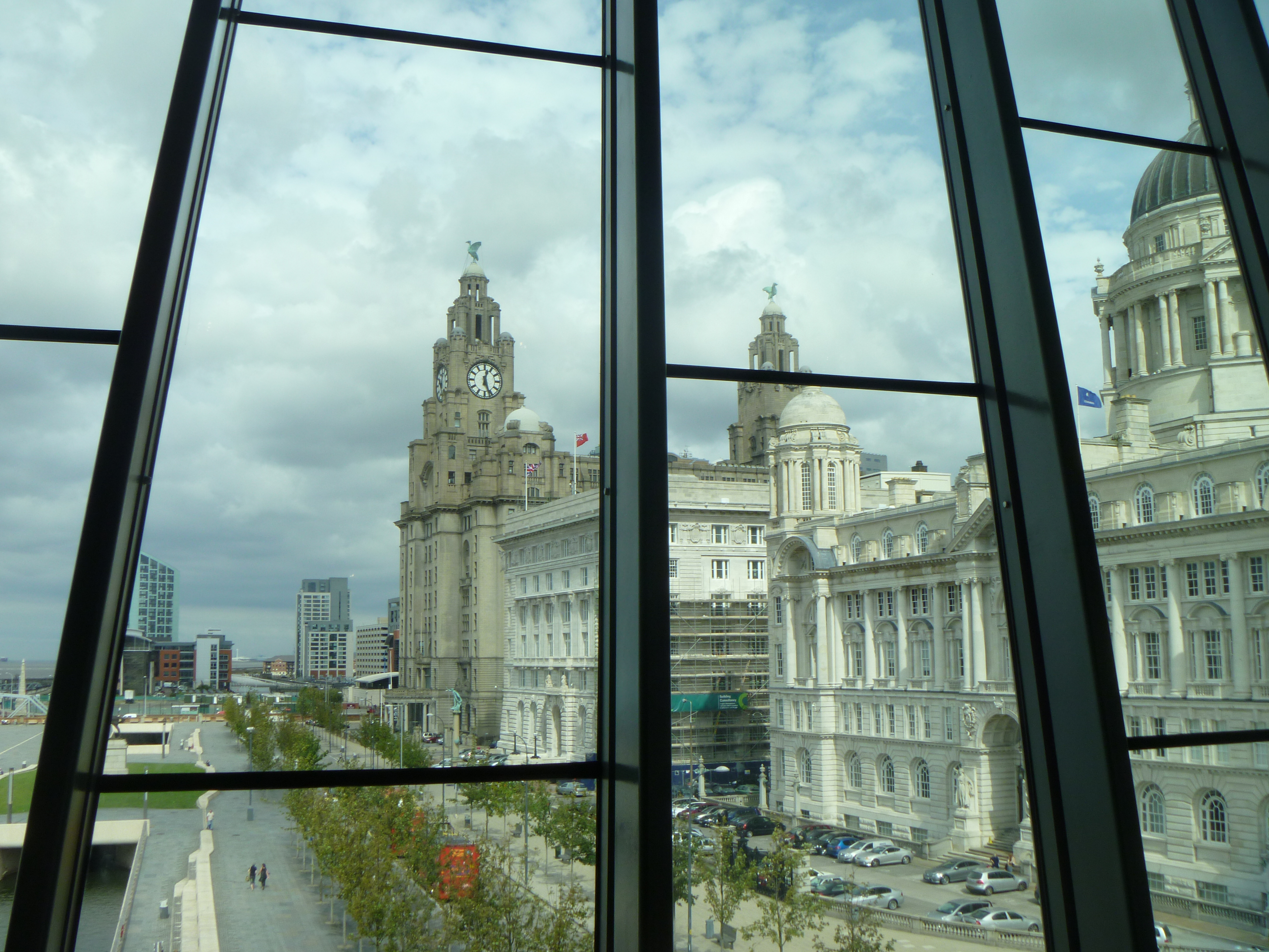 Looking north towards Pier Head from The People's Republic gallery in the Museum of Livepool.